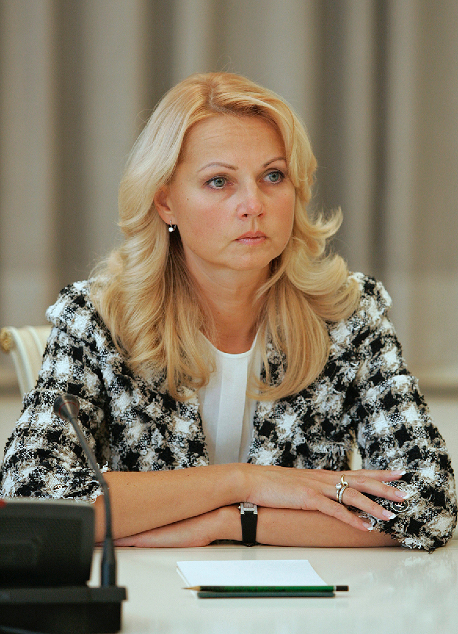 Tatyana Golikova, a Russian economist and politician.